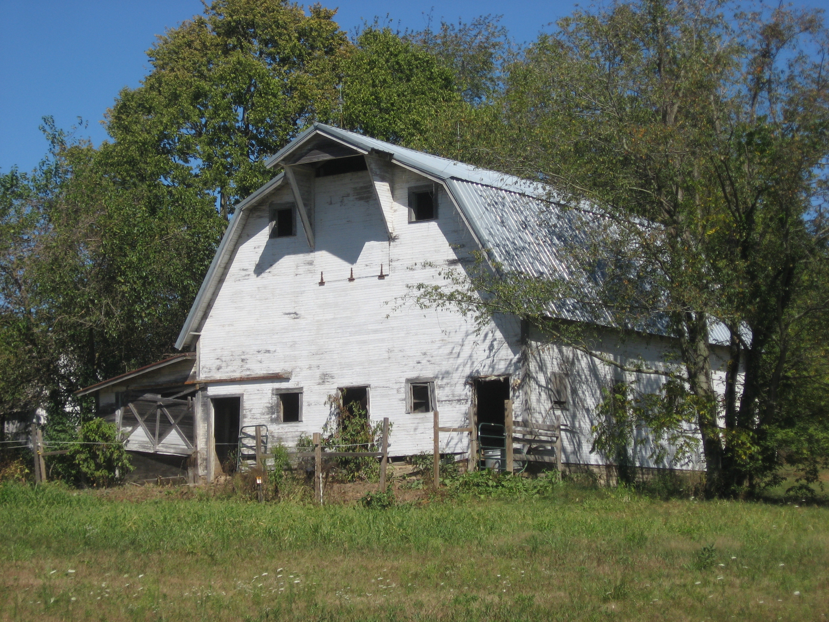 A barn on the western side of Maple Grove Road northwest of Bloomington in Bloomington Township, Monroe County, Indiana, United States. This barn is part of the Maple Grove Road Rural Historic District, a historic district that is listed on the National Register of Historic Places.